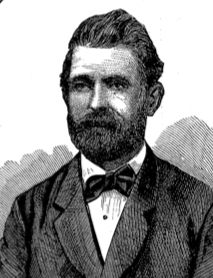 Portrait of John Davis